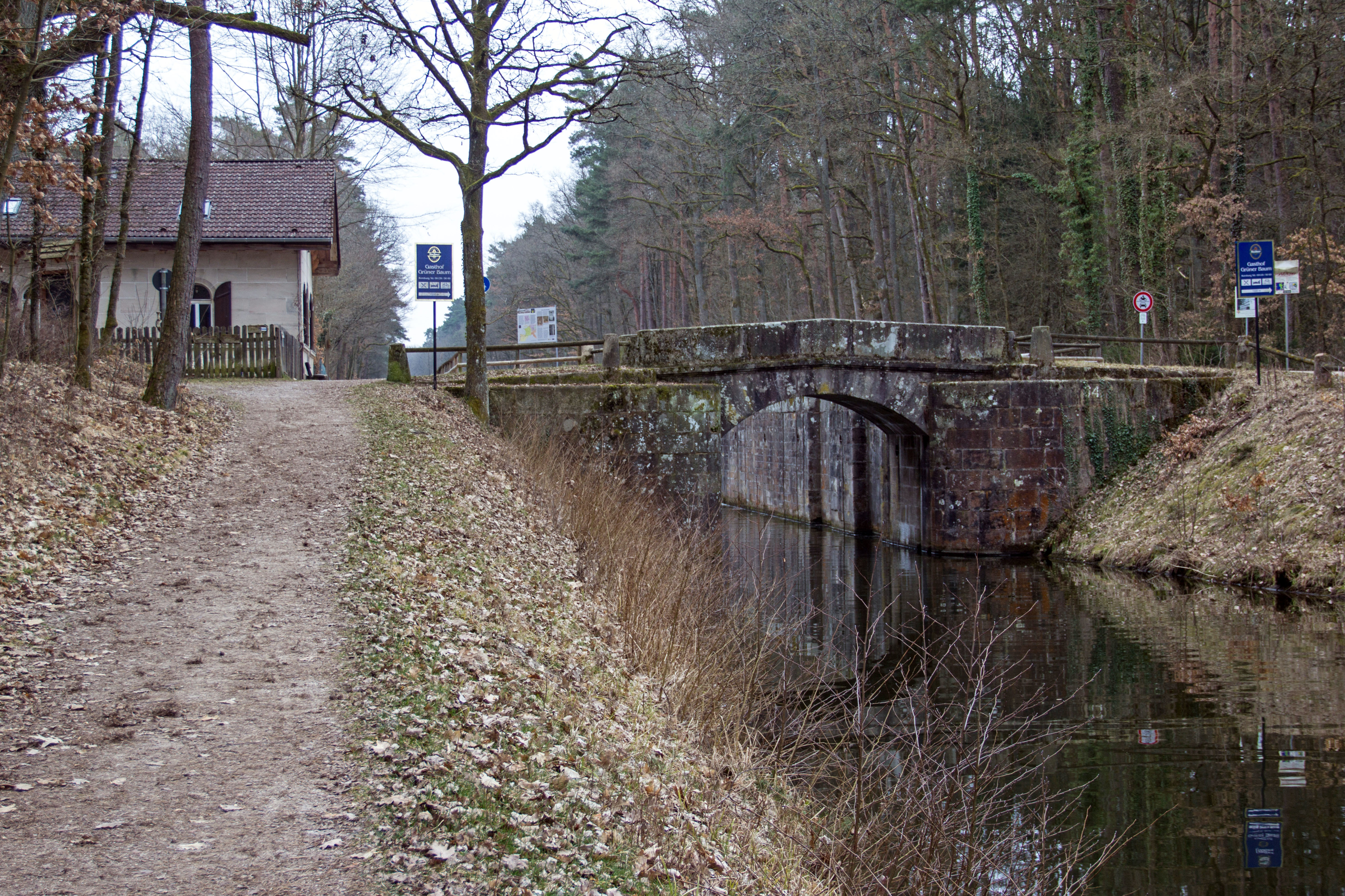 Schleuse 64, Kornburg, Worzeldorf